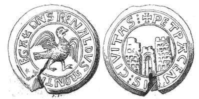 Seal of Reynald of Chatillon.